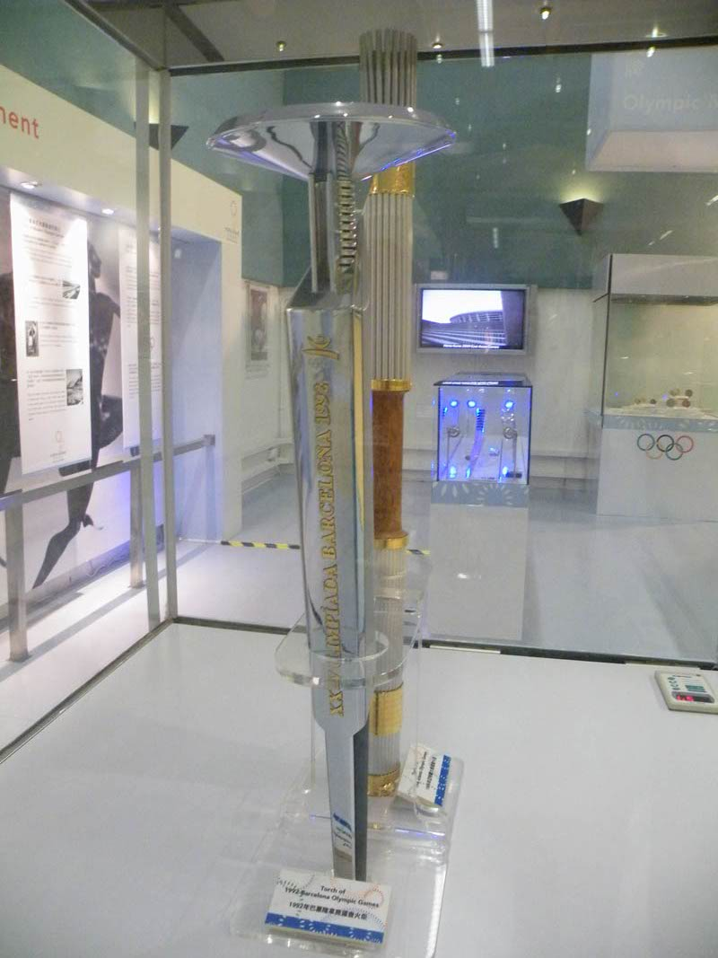 The 2009 East Asian Games Gallery - Torch of 1992 Summer Olympics